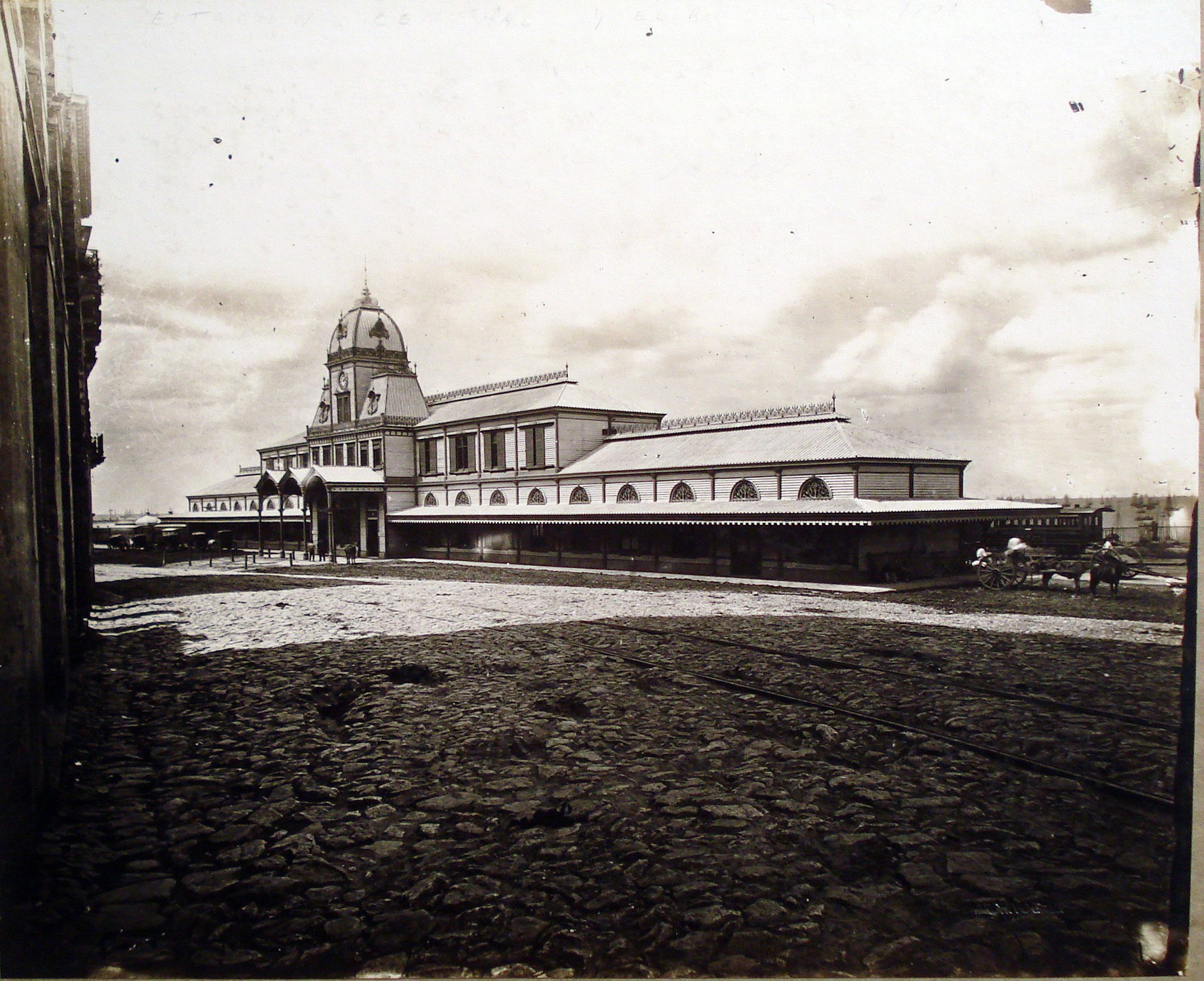 The Buenos Aires Central Station in 1875. The building would be destroyed by fire in 1897.